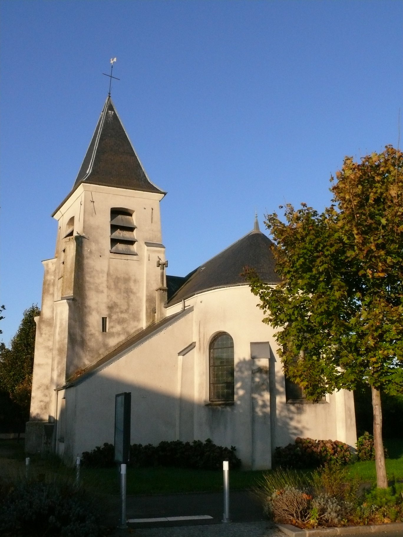 Saint-Remi's church of Collégien (Seine-et-Marne, Île-de-France, France).